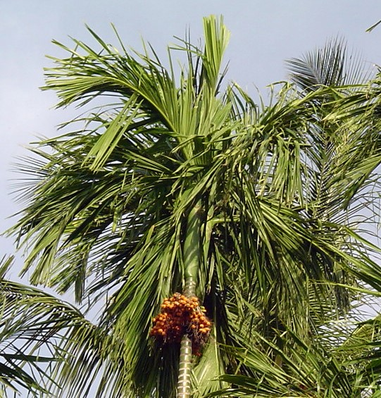 Areca nut tree - Areca catechu Used with the Betel nut for 'medicinal beverage.'